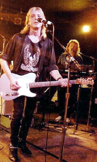 Mick Ronson (left) and Howard Helm (right rear) performing during Ian Hunter concert